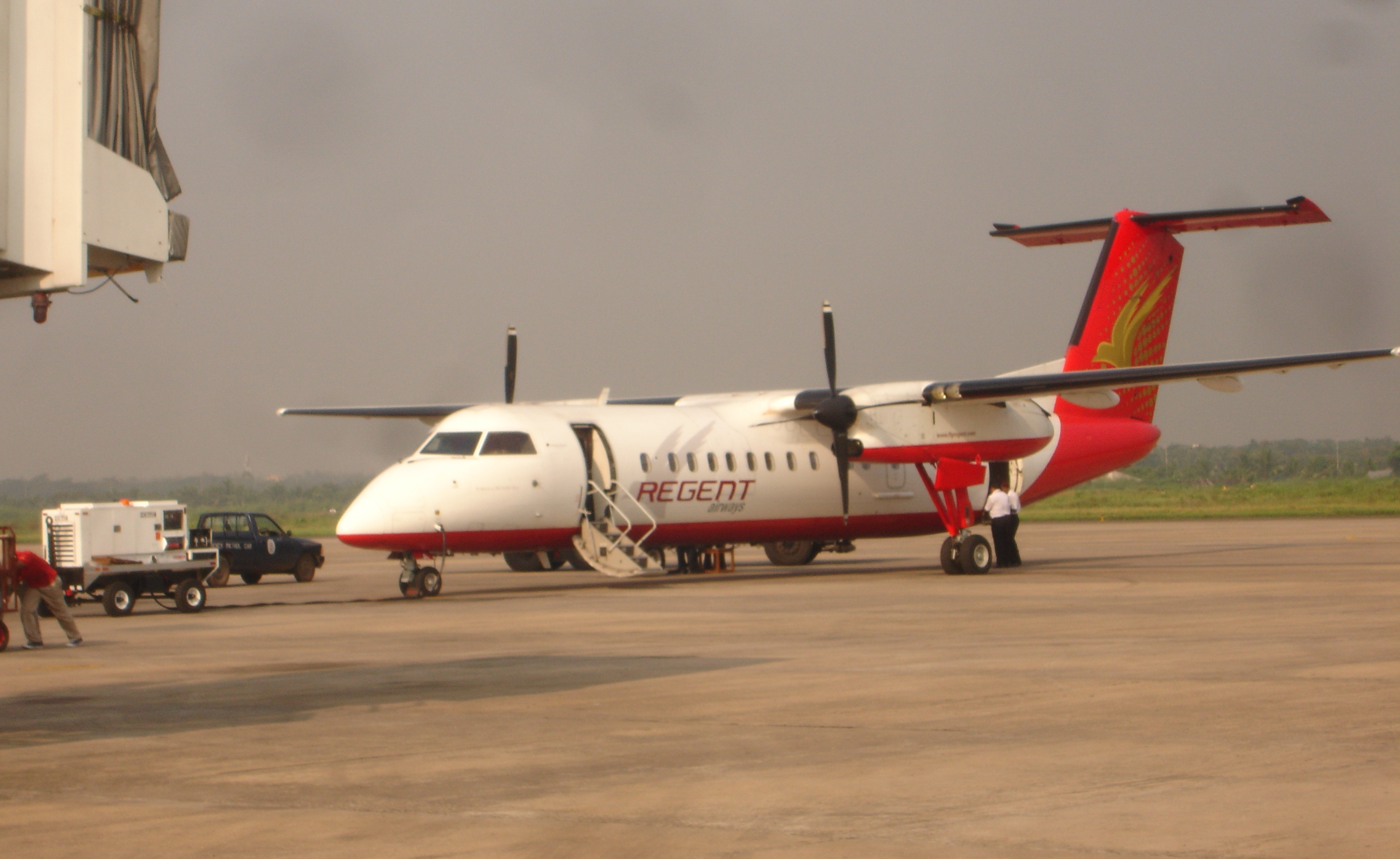 Regent Airways at Chittagong Airport